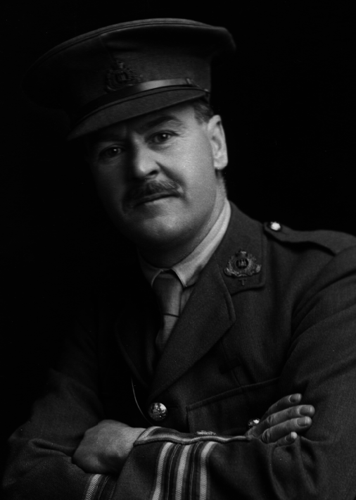 Lieutenant Colonel William Rowley Elliston (1869-1954) in 1918. IWM Collections (HU 121749)